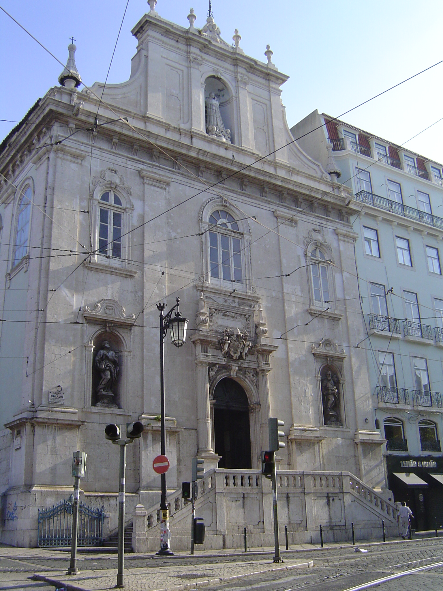 Click here to see where this photo was taken. By courtesy of BeeLoop SL (the Mapware & Mobility Solutions Company).